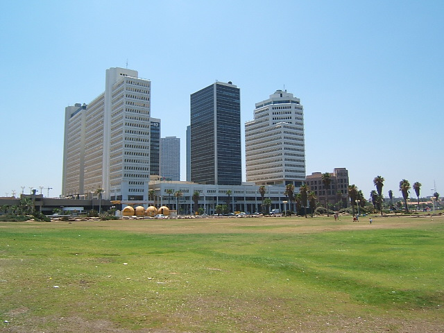 Tel Aviv Manshiya site towers and Charles Clor park